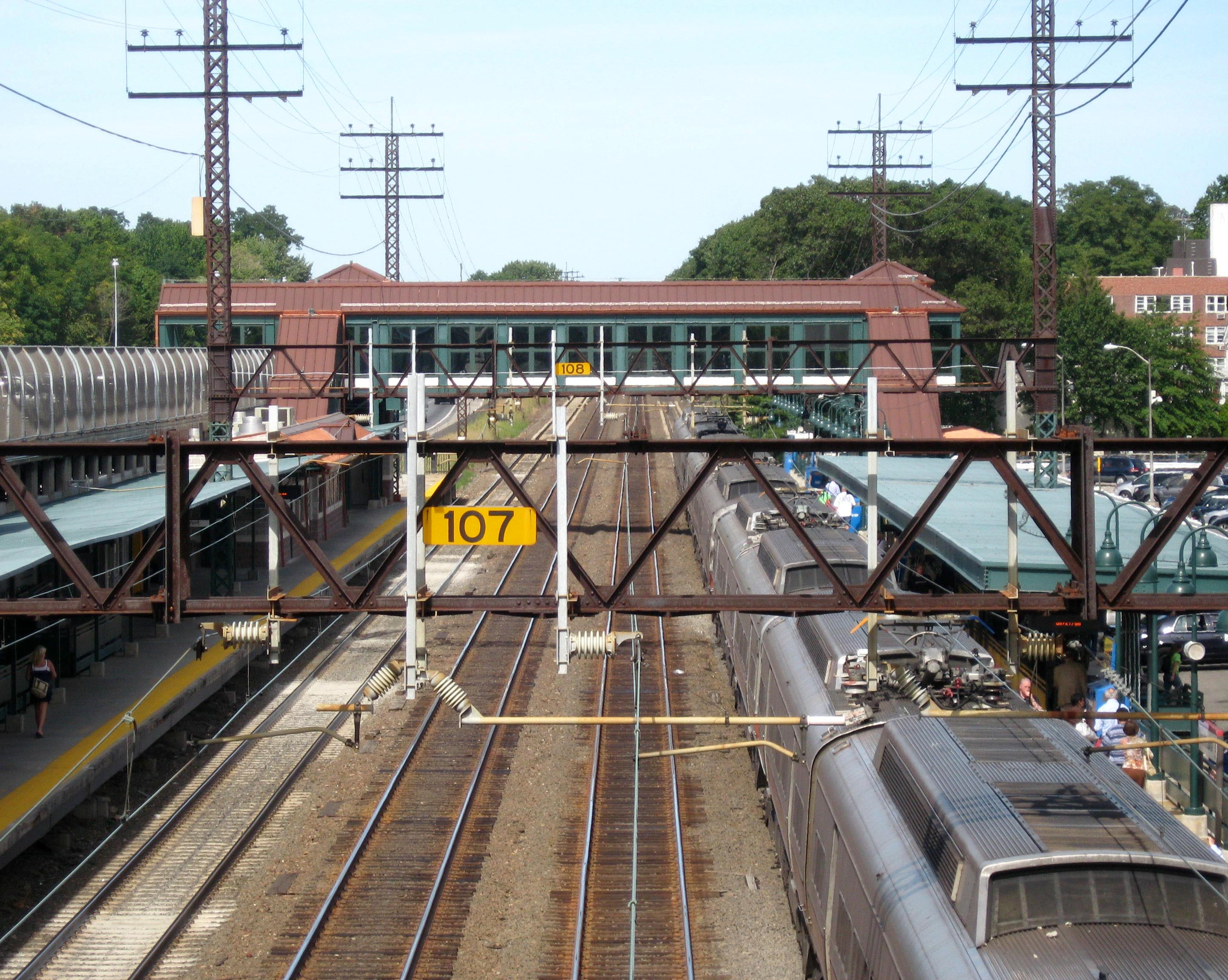 Looking north at Larchmont (Metro-North station) from Chatsworth Avenue overpass on a sunny early afternoon.